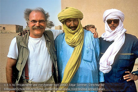 Edgar Sommer with Tuareg